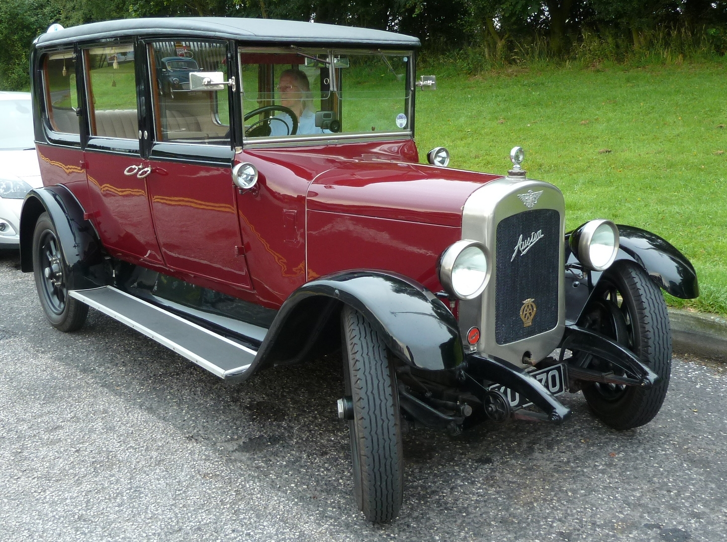 1927 Austin Mayfair Saloon